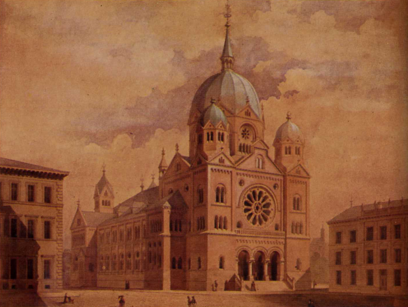 Design for a synagogue in Munich by Edwin Oppler, ca. 1872